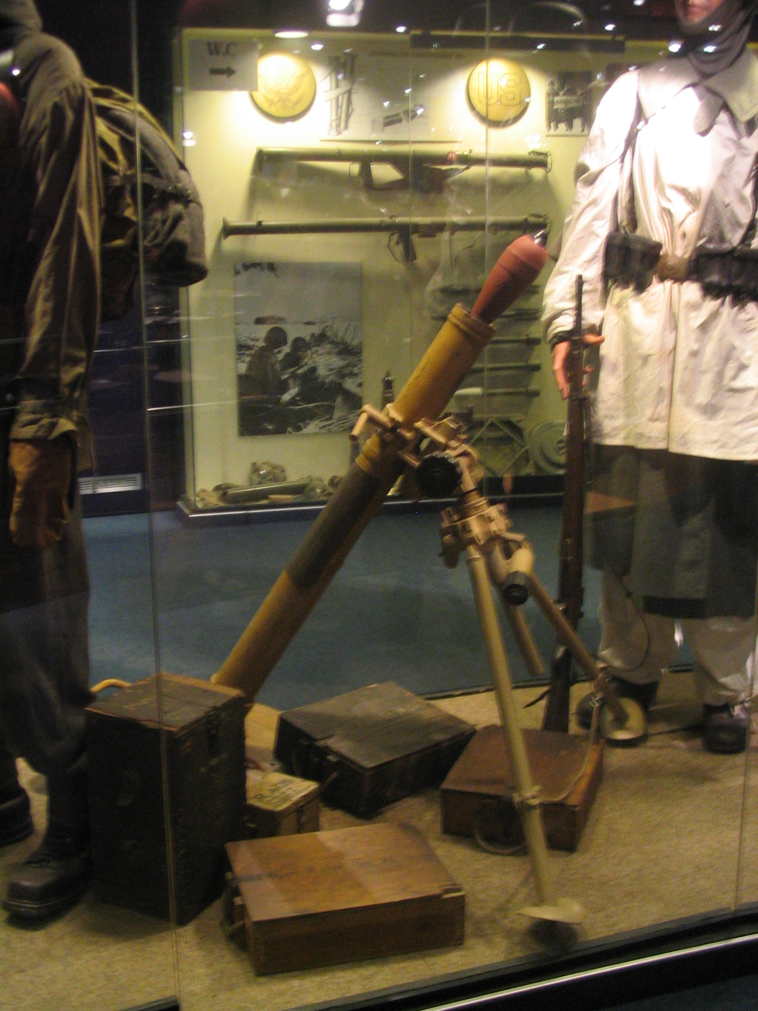 German mortar from the Battle of the Bulge